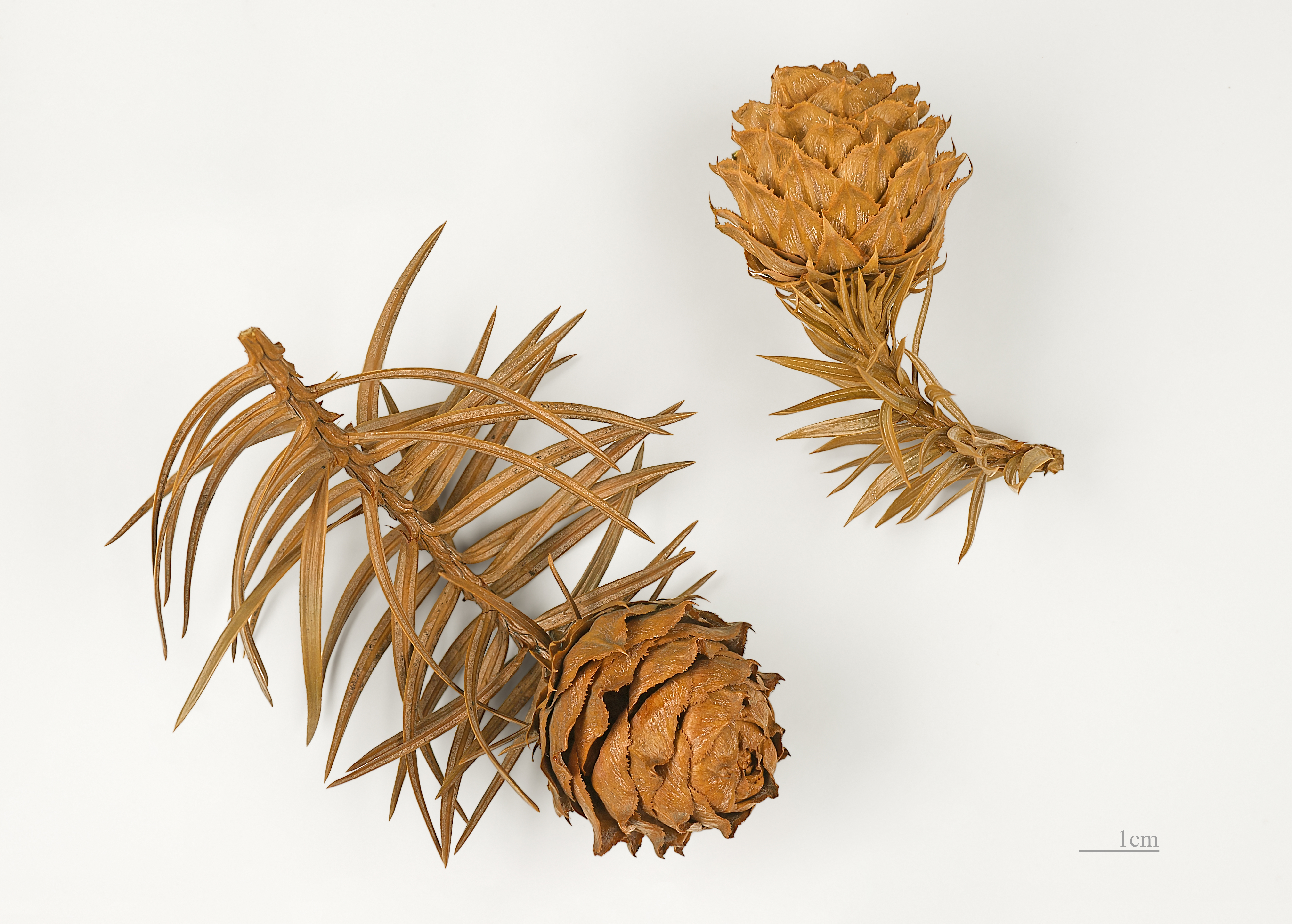 Cones of Cunninghamia lanceolata. Source: Arboretum Castle Hadik, Hungary.